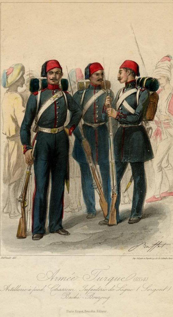 Ottoman Empire in the Crimean War